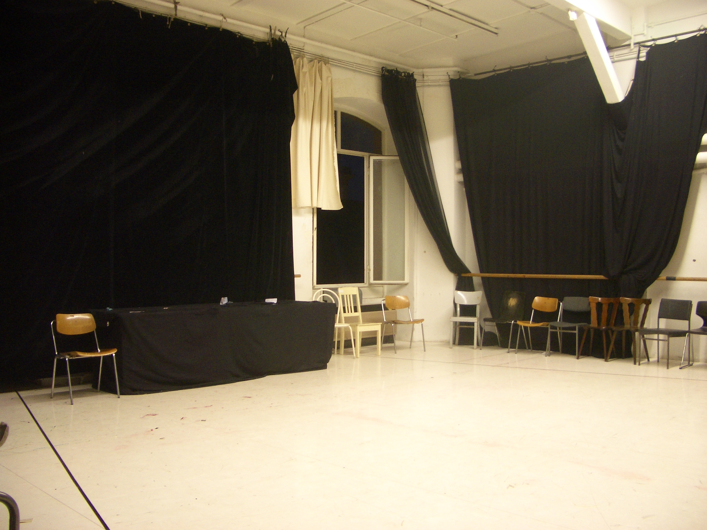 This picture shows an empty rehearsal stage inside the theatre of Heidelberg.